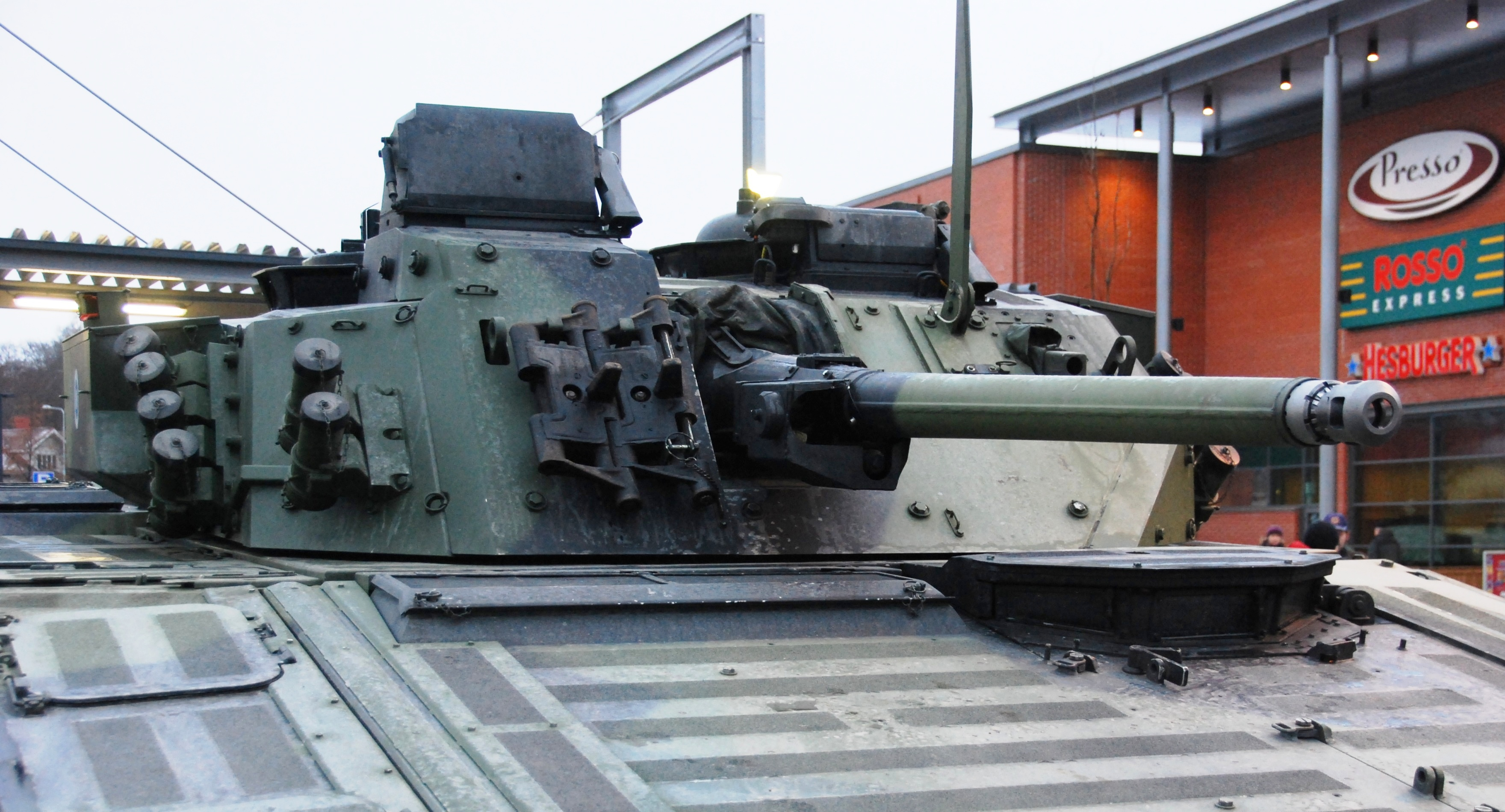 The 30 mm chain gun Bushmaster mounted on a finnish CV90 AFV.